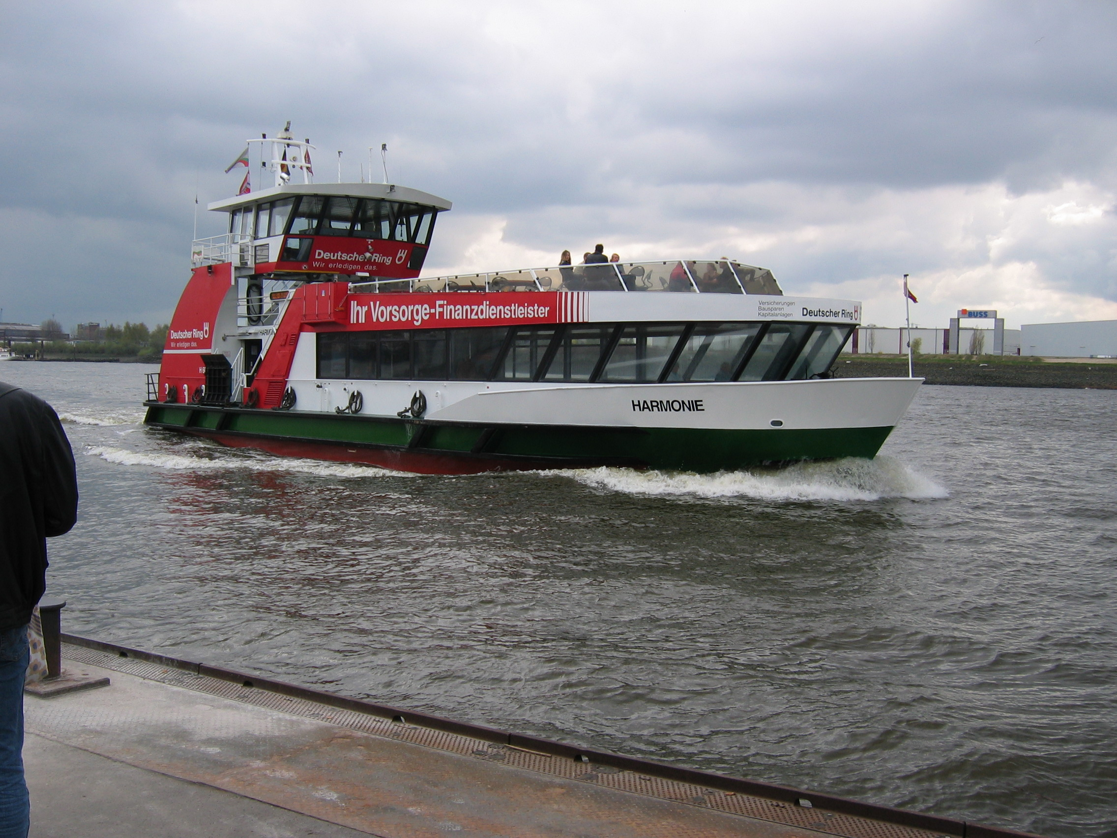 Water tram in Hamburg